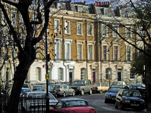 Thornhill Crescent, Barnsbury Thornhill Crescent is a semi-circular road at the northern end of Thornhill Square. The houses here were built around 1848.